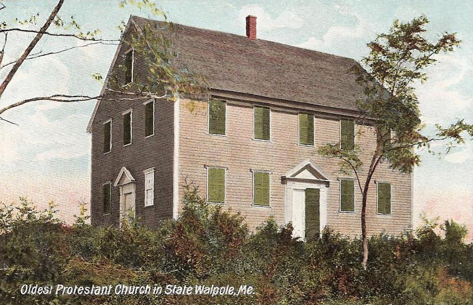 Walpole Meeting House, Walpole (South Bristol), ME; from a c. 1908 postcard. It was built in 1772.